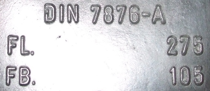 This image of the sole of a Marina Dolfino full-foot fin is designed to accompany an article about a German standard focusing on the dimensioning of swimming fins. "DIN 7876-A" indicates the number of the German standard (DIN 7876), with particular reference to full-foot fins (DIN 7876-B would denote an open-heel fin). "FL 275" and "FB 105" identify this fin as having a foot length of 275 millimetres and a foot width of 105 millimetres.